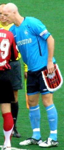 Matthew Booth as captain FC Krylya Sovetov Samara